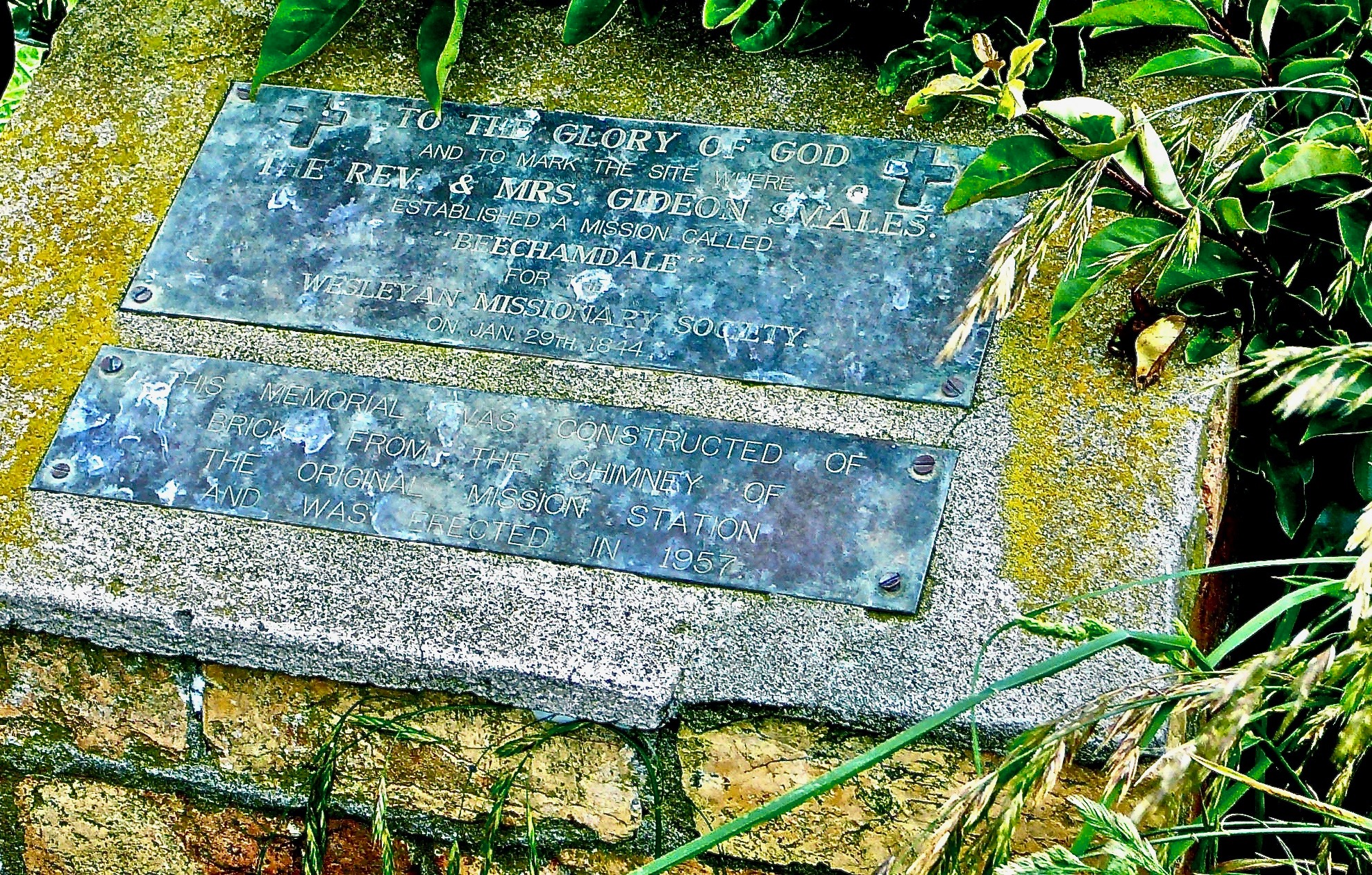 The station opened in 1844. The school closed in 1904. The memorial plaque dates from 1957